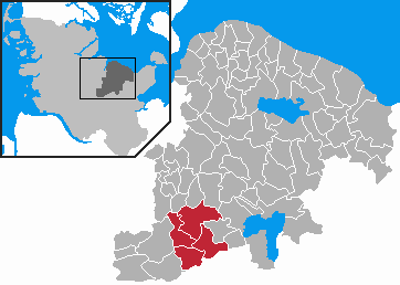 This map shows the area of the Amt (county) Wankendorf in the Kreis (district) Plön, Schleswig-Holstein, Germany.